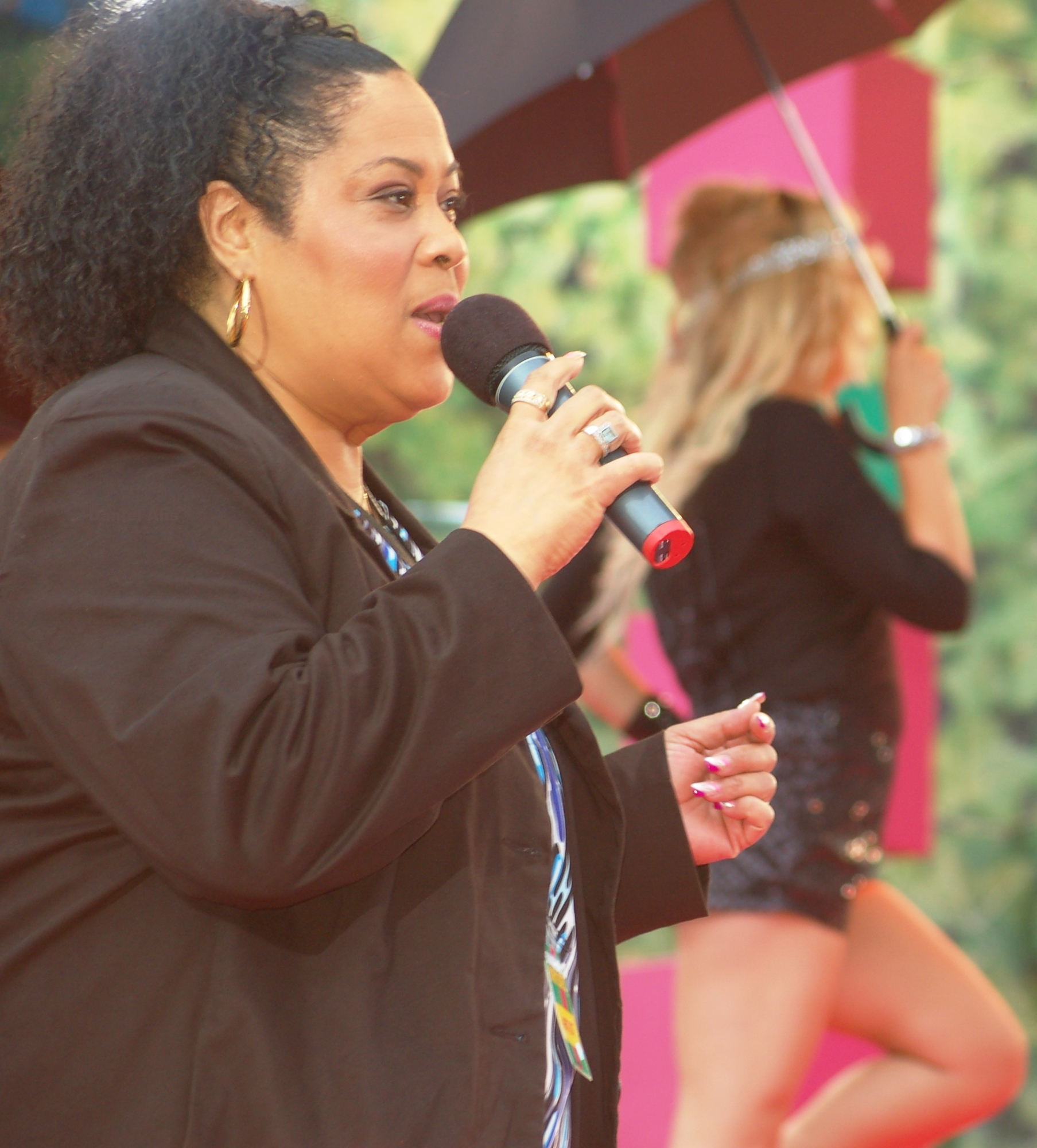 Martha Wash in Sweden, at Gröna Lund in Stockholm